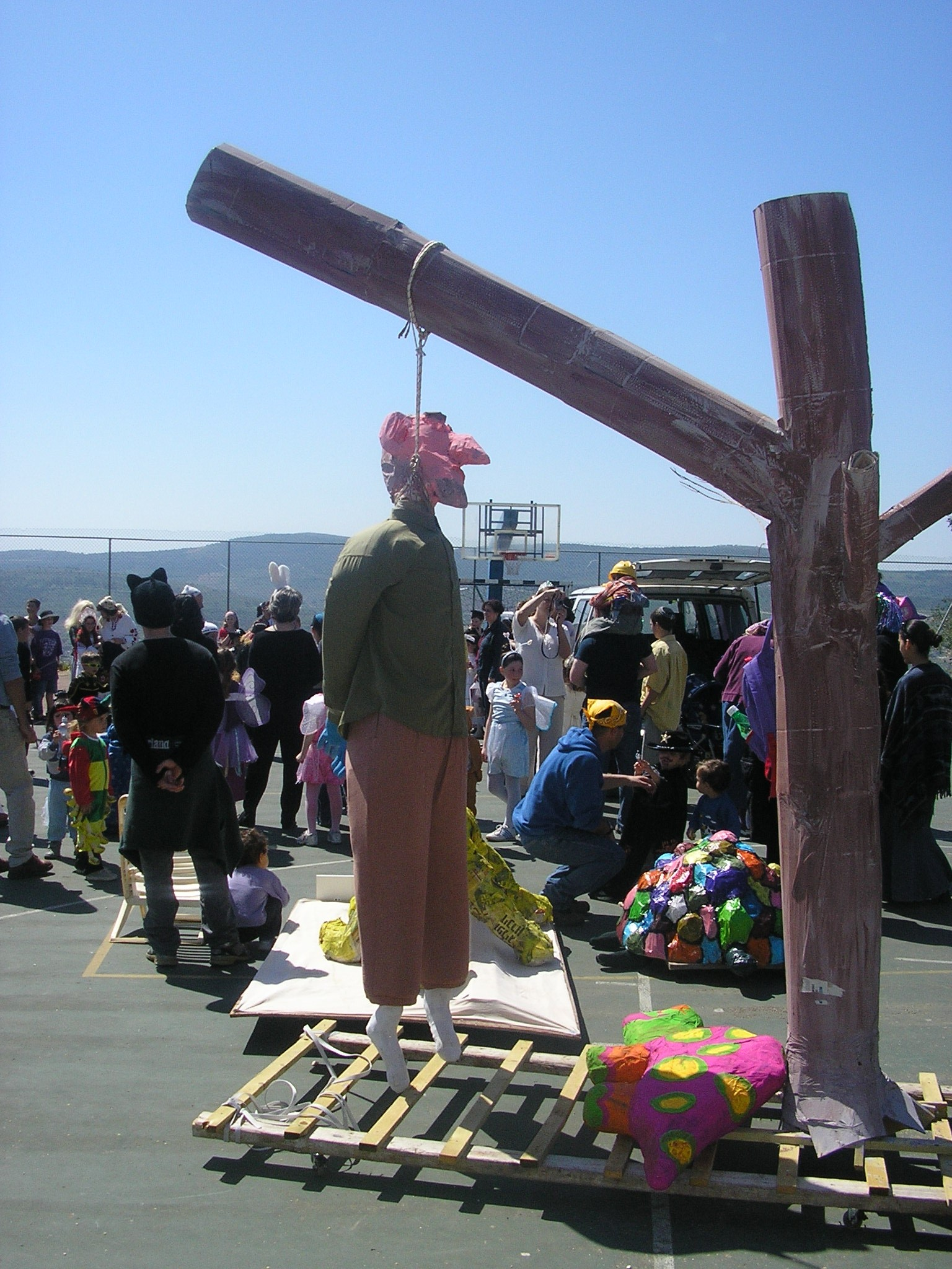 צלמו של המן האגגי מוצג בעדלוידע - the image of he:Haman (Bible) in the Adloyada (Purim festival)